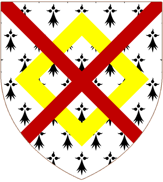 Shield of arms of The Lord Fitzgerald